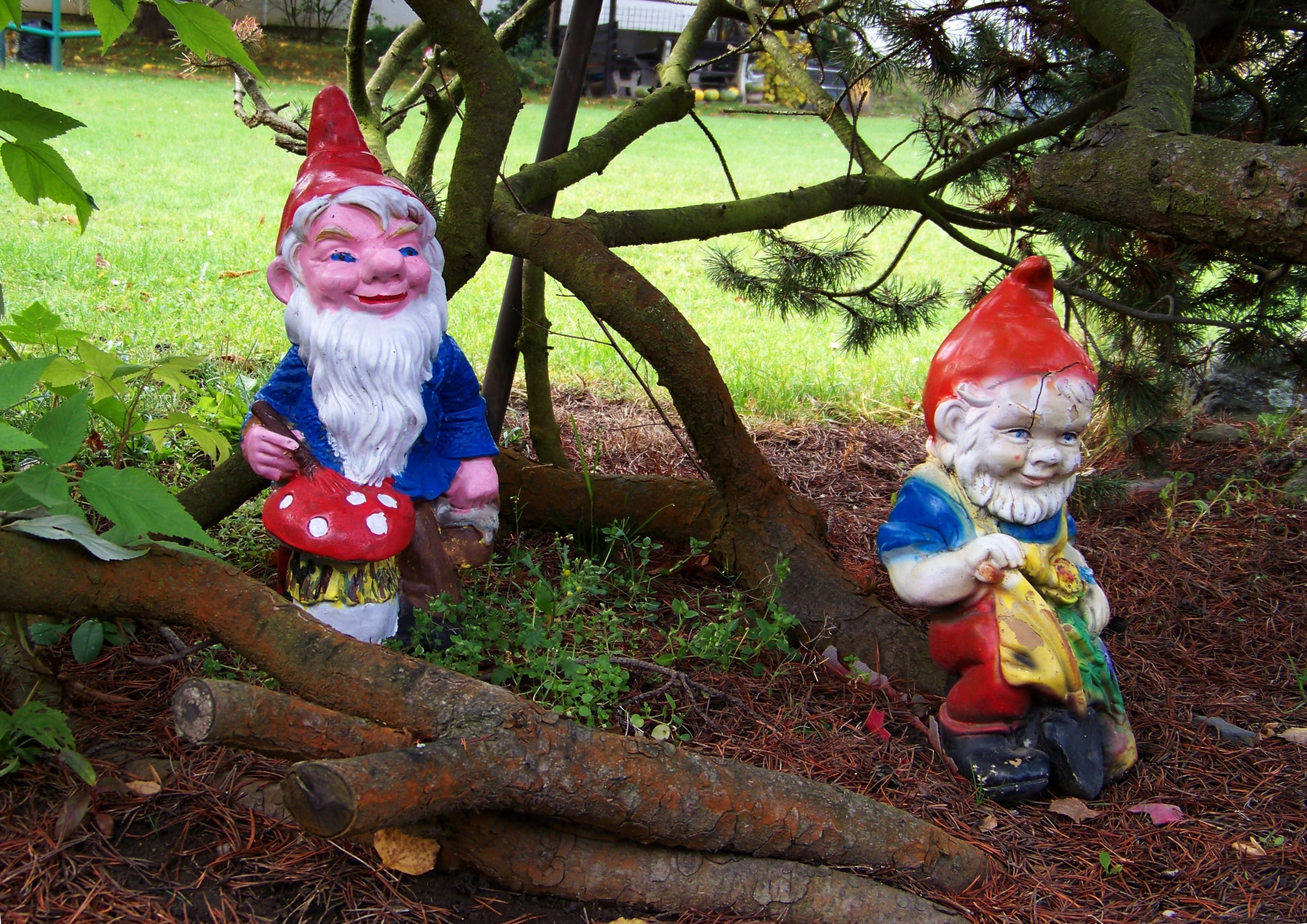 Štěchovice, Prague-West District, Central Bohemian Region, the Czech Republic. Prof. List street, garden gnomes.